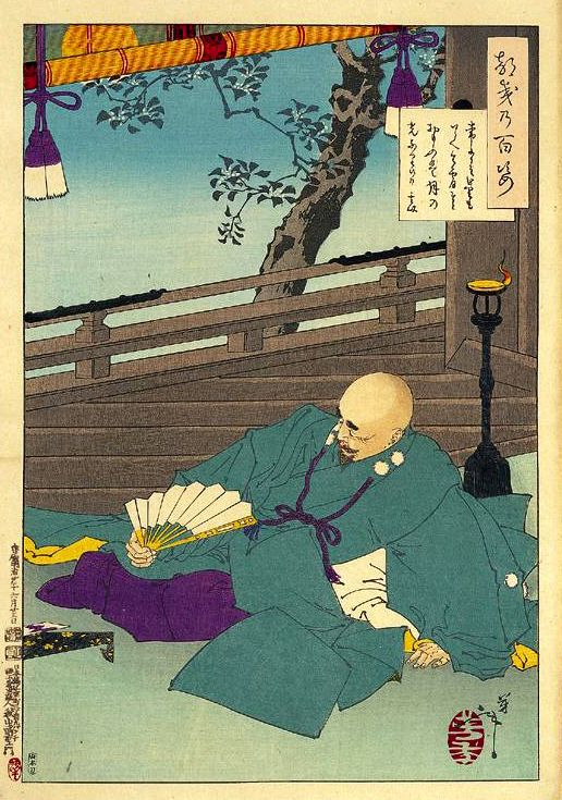 Gen’i viewing the moon from his castle